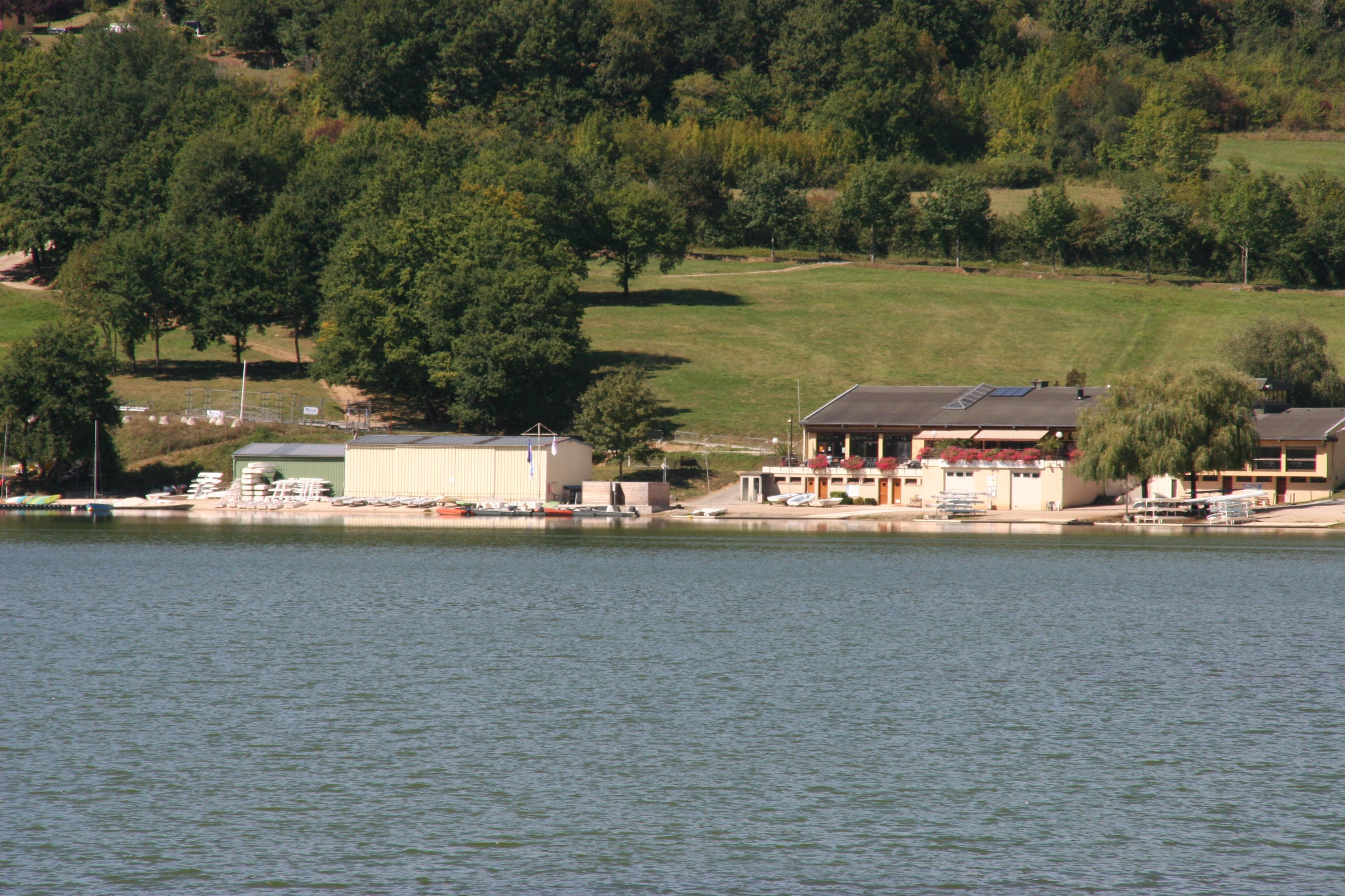 Lac du Causse: Watersport Area